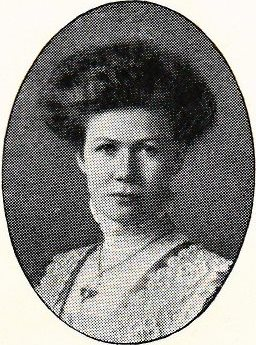 Märta Erika Apelskog-Fahlborg (1879-1971), Swedish physician